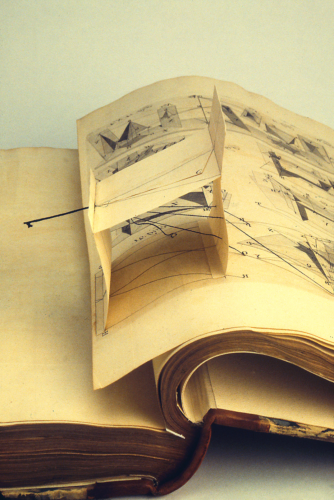 A true pop-up can be viewed from a full 360 degrees and this example is the earliest known of its kind.